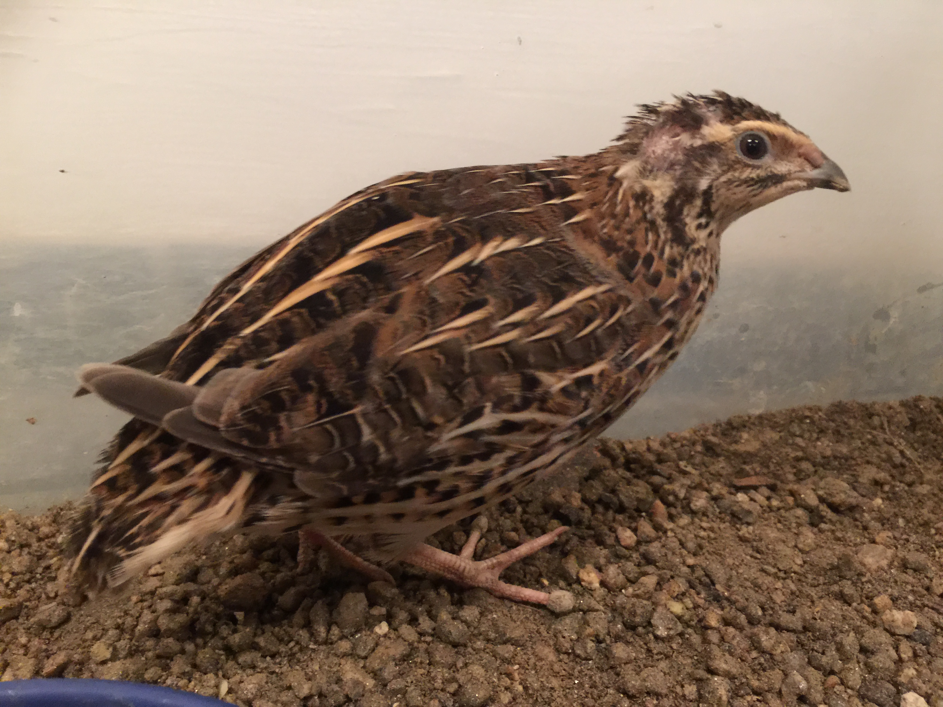 Female adlut_Coturnix japonica